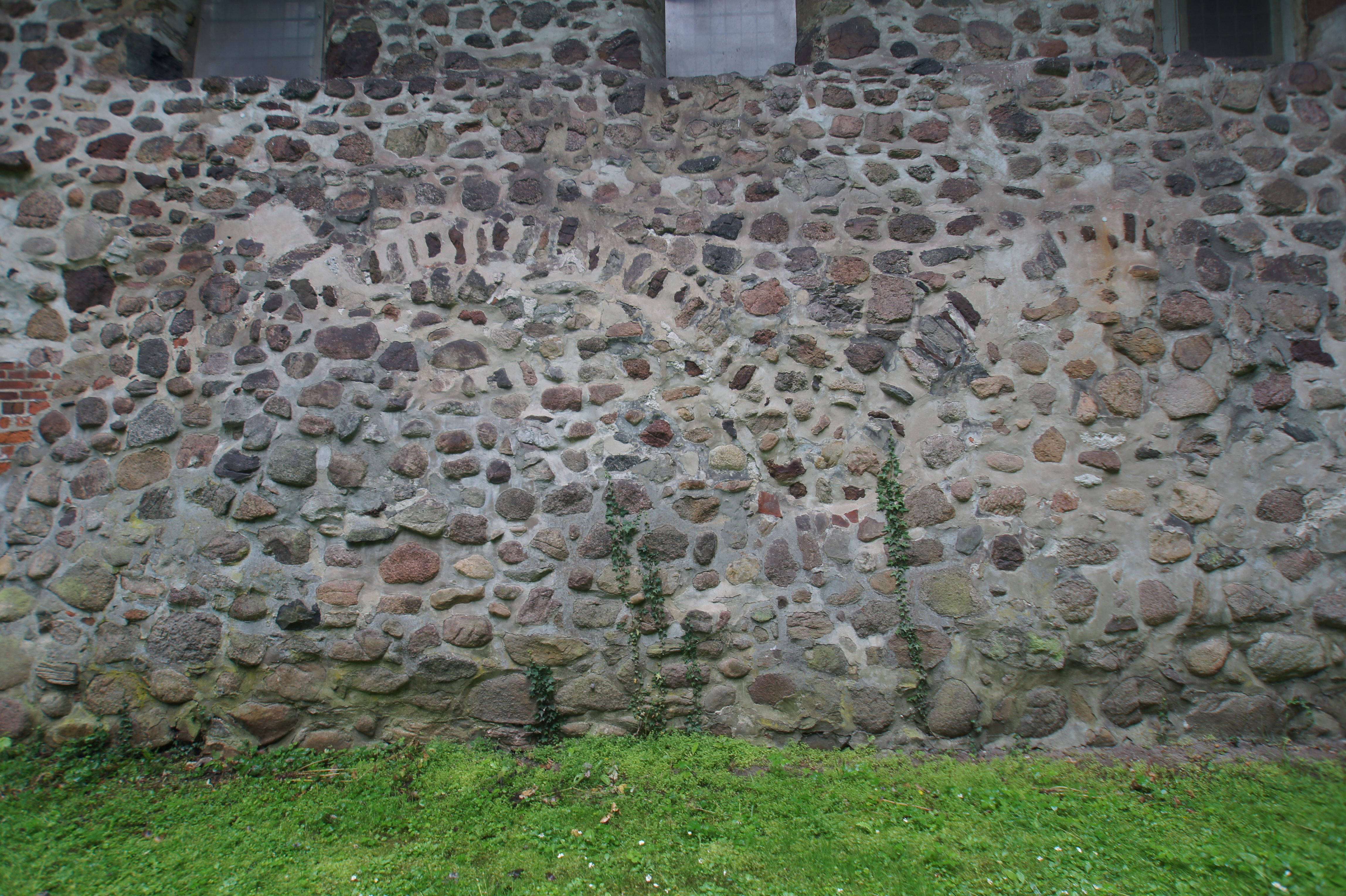 Hamburg (Sinstorf), Germany: Church: romanesque arches